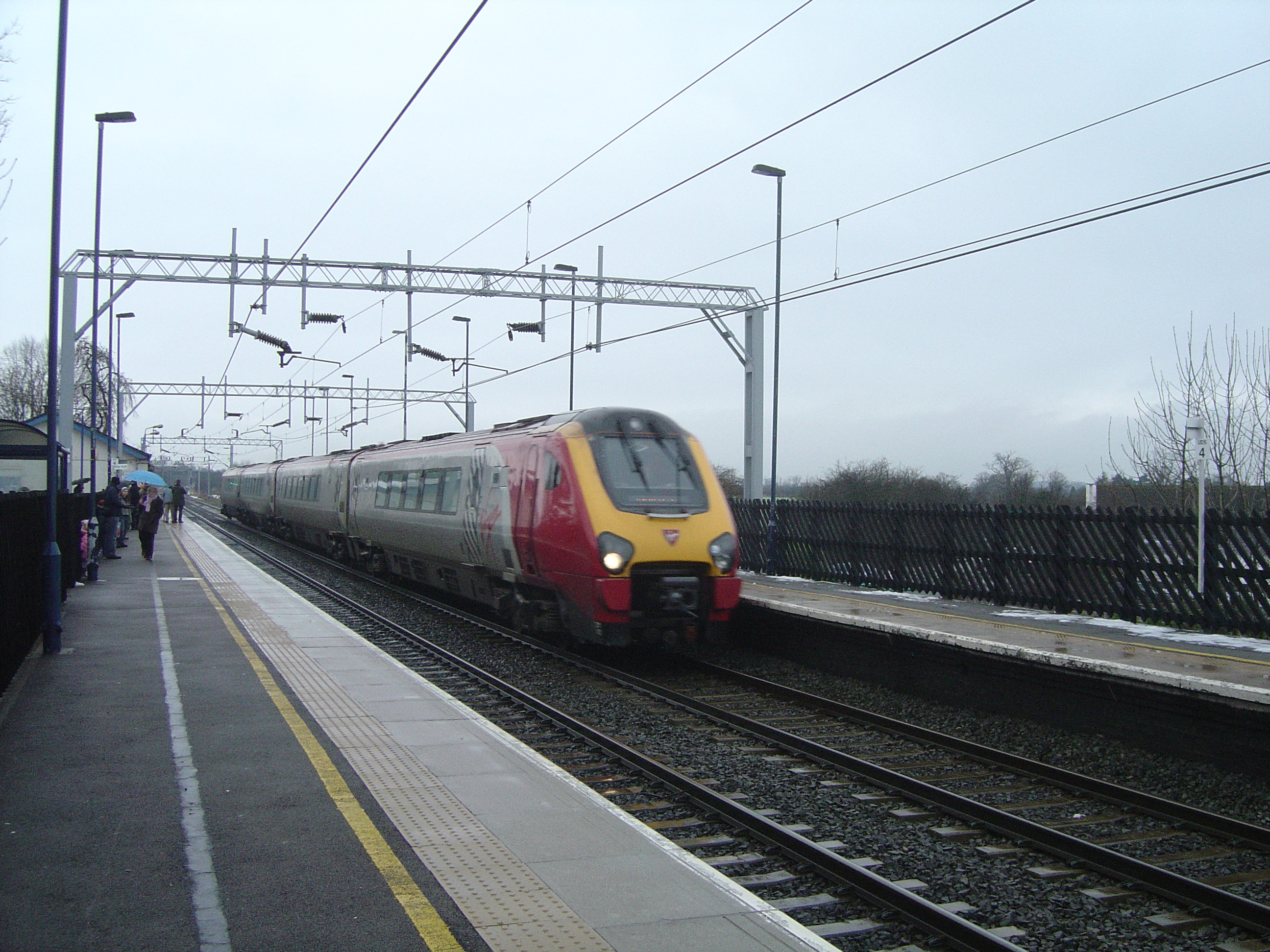 Penkridge railway station